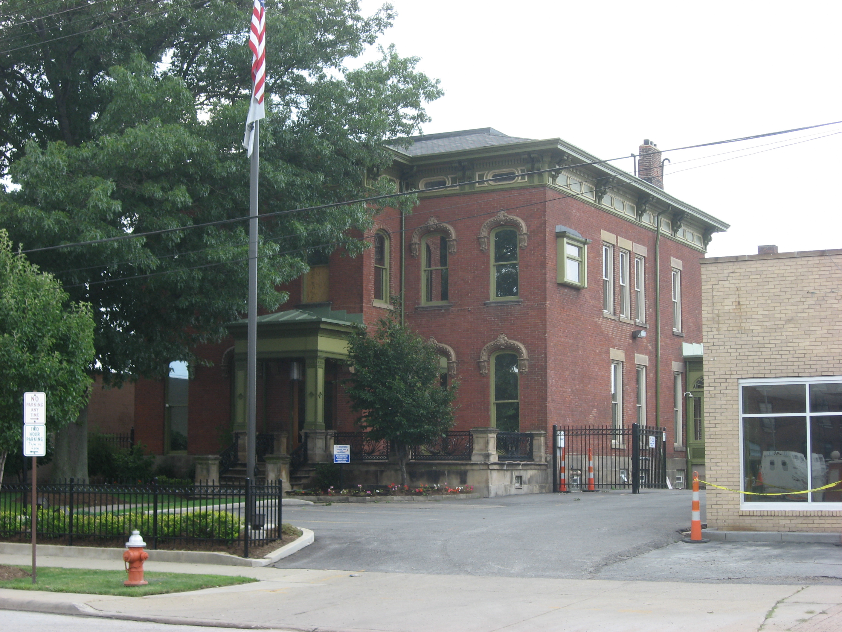 Closeup view of the Southworth House, located at 3334 Prospect Avenue in Cleveland, Ohio, United States. A former Delta Sigma Phi fraternity house, it is listed on the National Register of Historic Places.